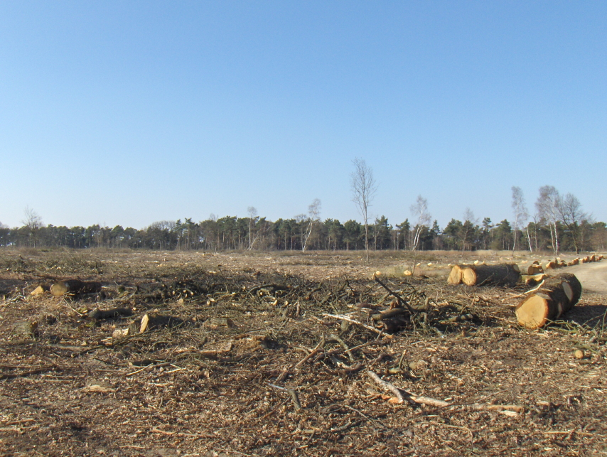 Clearcutting in Forêt d'Ermenonville, Oise, France